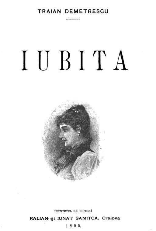 Traian Demetrescu - First page of Iubita, published by Ralian şi Ignat Samitca, Craiova in 1895.